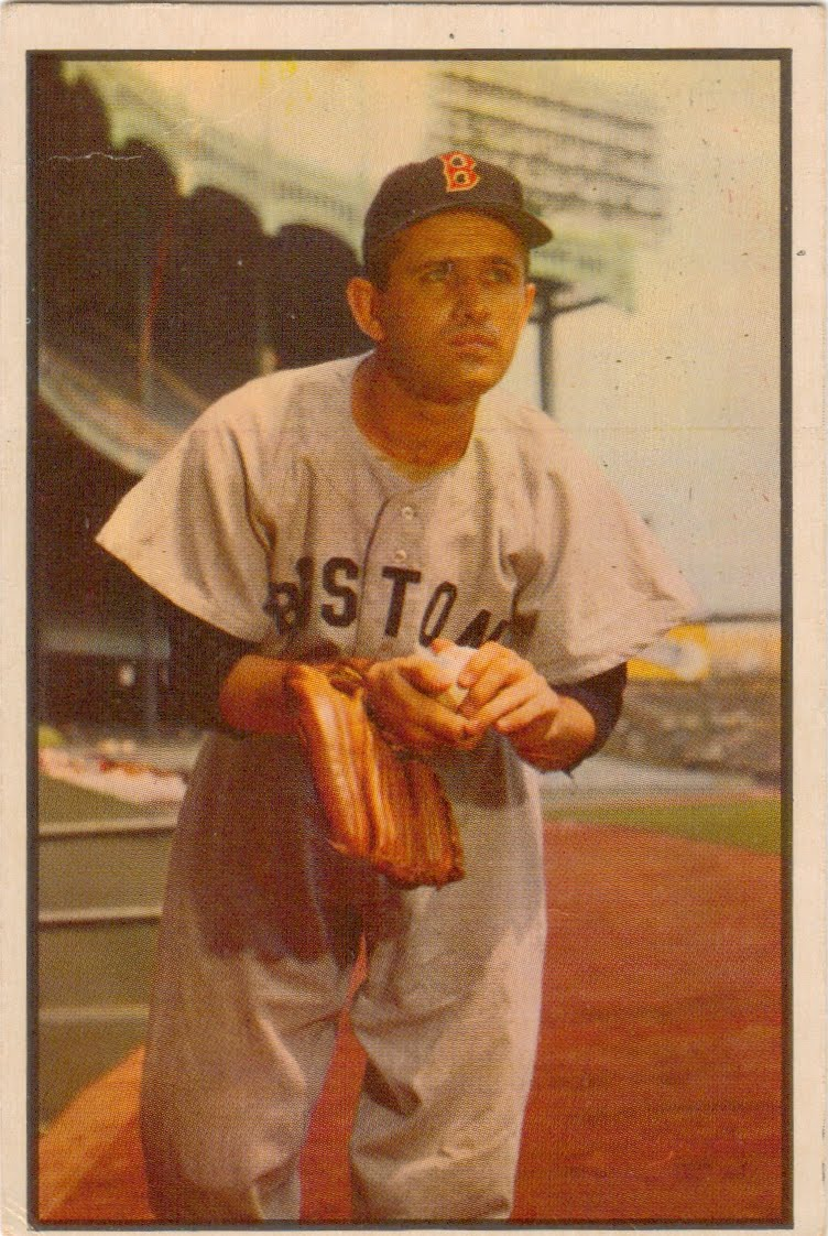 1953 Bowman baseball card of Mel Parnell